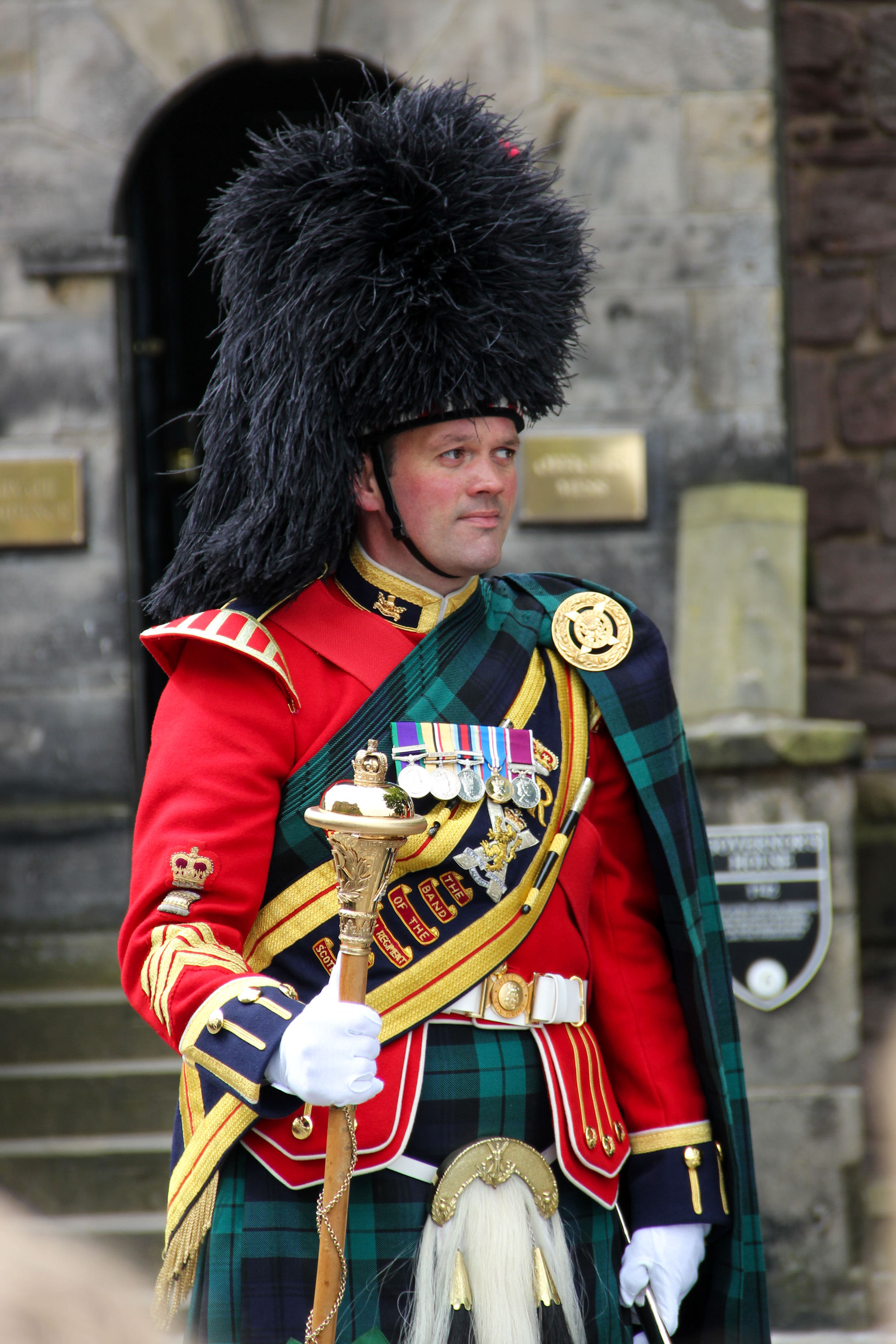 Drum Major from the Band of the Royal Regiment of Scotland at Edinburgh Castle, celebrating the Diamond Jubilee of Queen Elizabeth II.